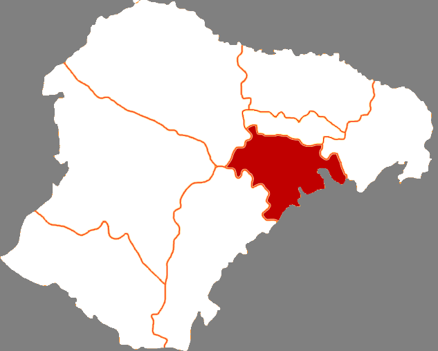 Locator map of Ejin Horo Banner in Ordos City, Inner Mongolia, China